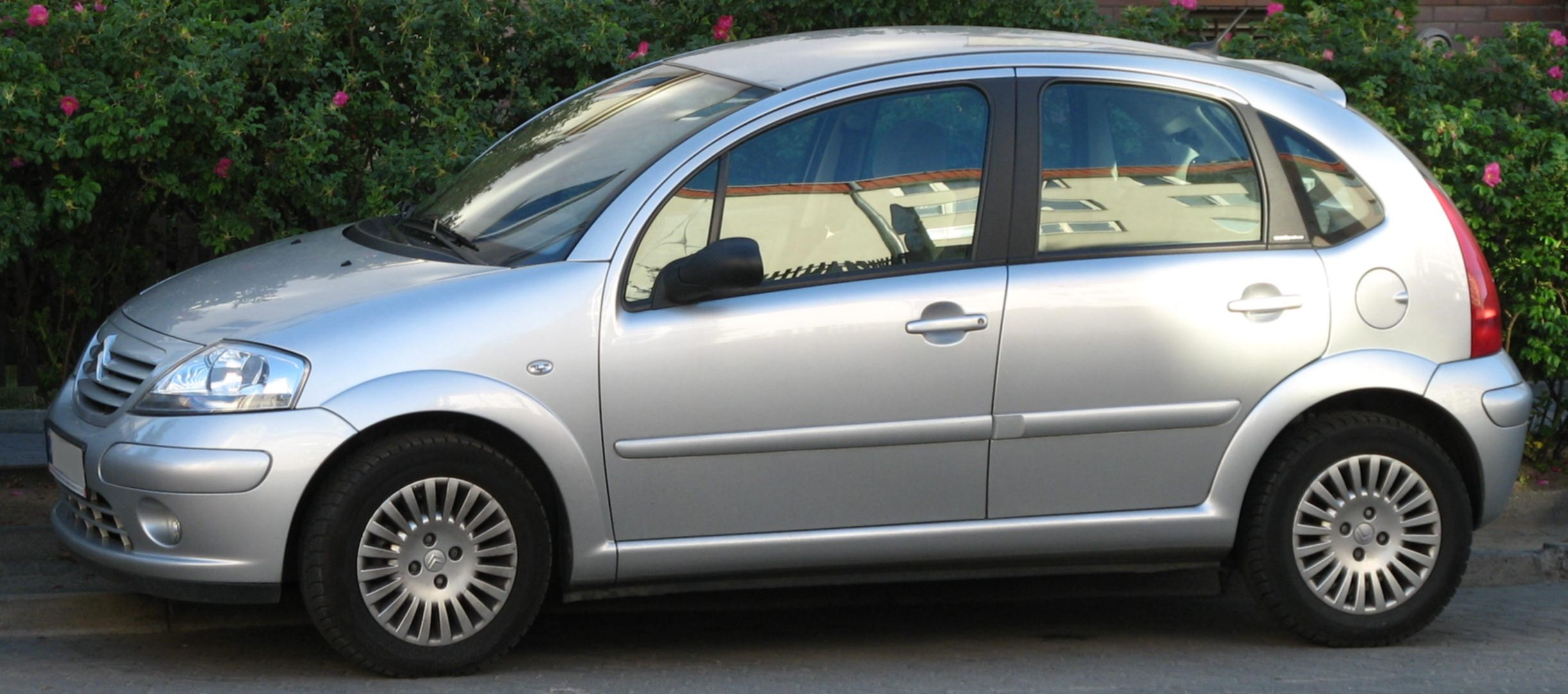 Citroën C3, silver, photographed in Warsaw